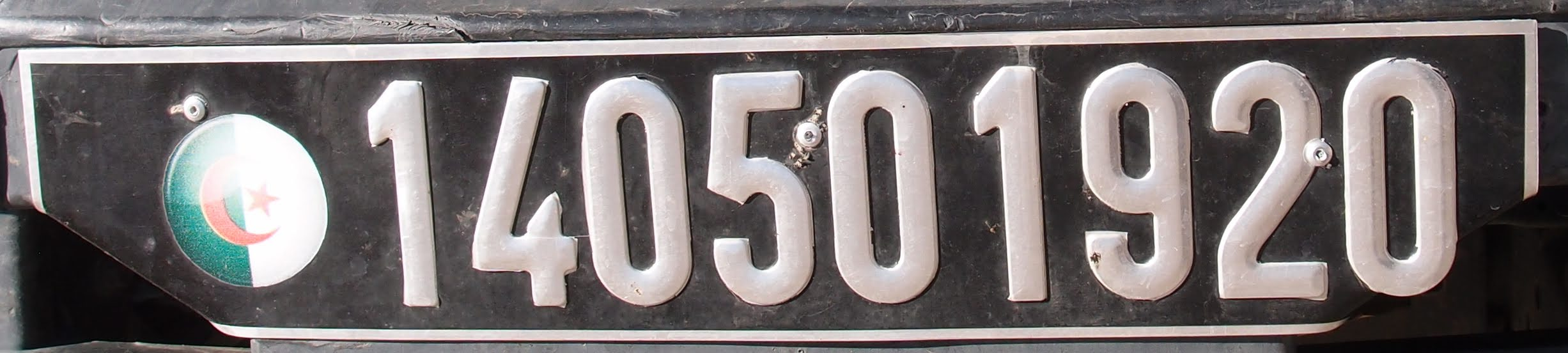 Algeria army vehicle registration plate 2018